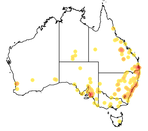 Occurrence map of Rhytidoponera metallica specimens according to the Atlas of Living Australia